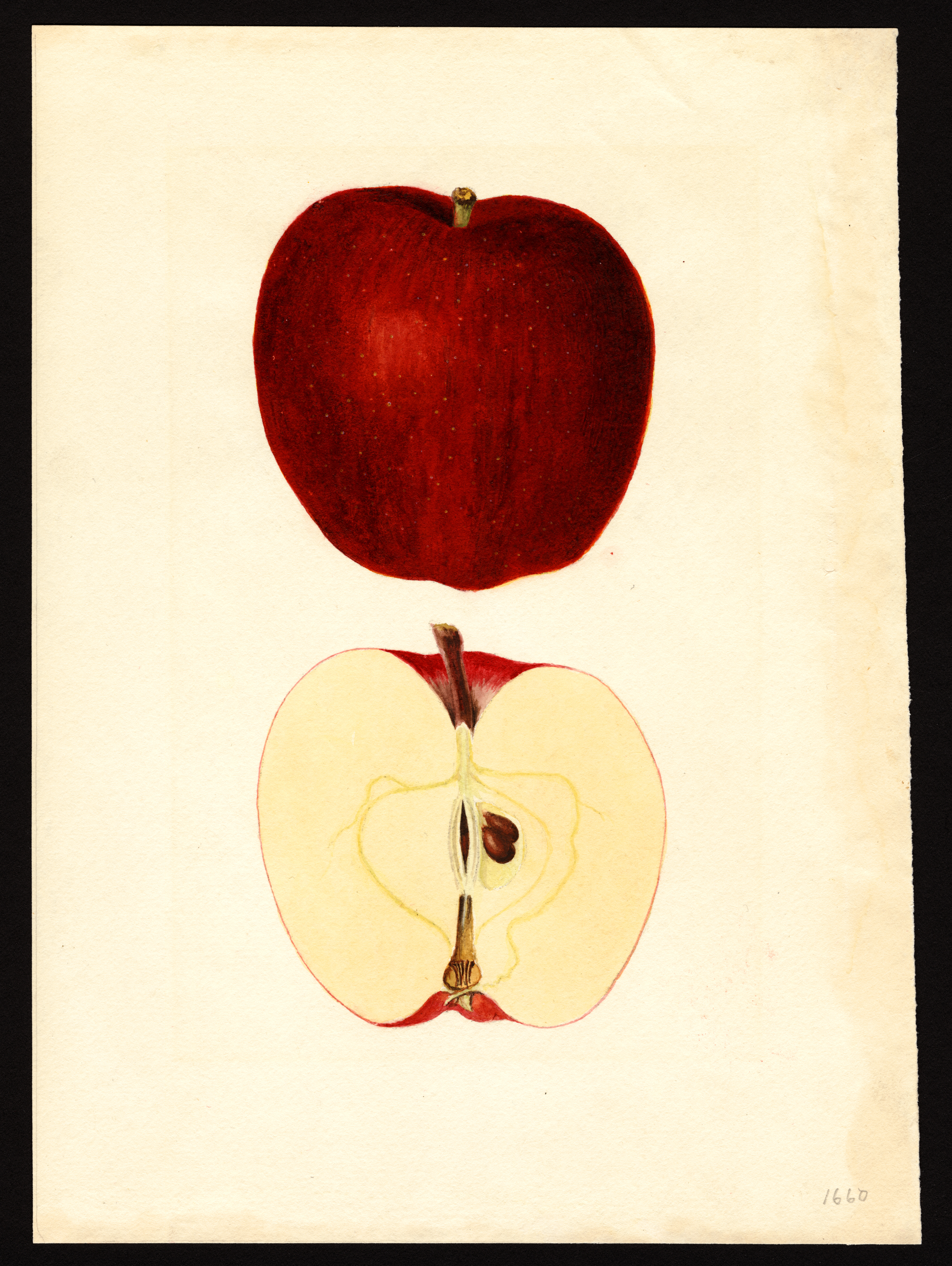 Image of the Starking Delicious variety of apples (scientific name: Malus domestica), with this specimen originating in Hood River, Hood River County, Oregon, United States. Source: U.S. Department of Agriculture Pomological Watercolor Collection. Rare and Special Collections, National Agricultural Library, Beltsville, MD 20705.